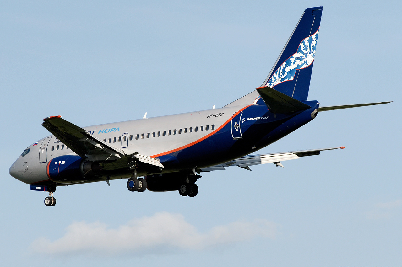 Aeroflot-Nord Boeing 737-505. Crashed in 2008 as Aeroflot Flight 821